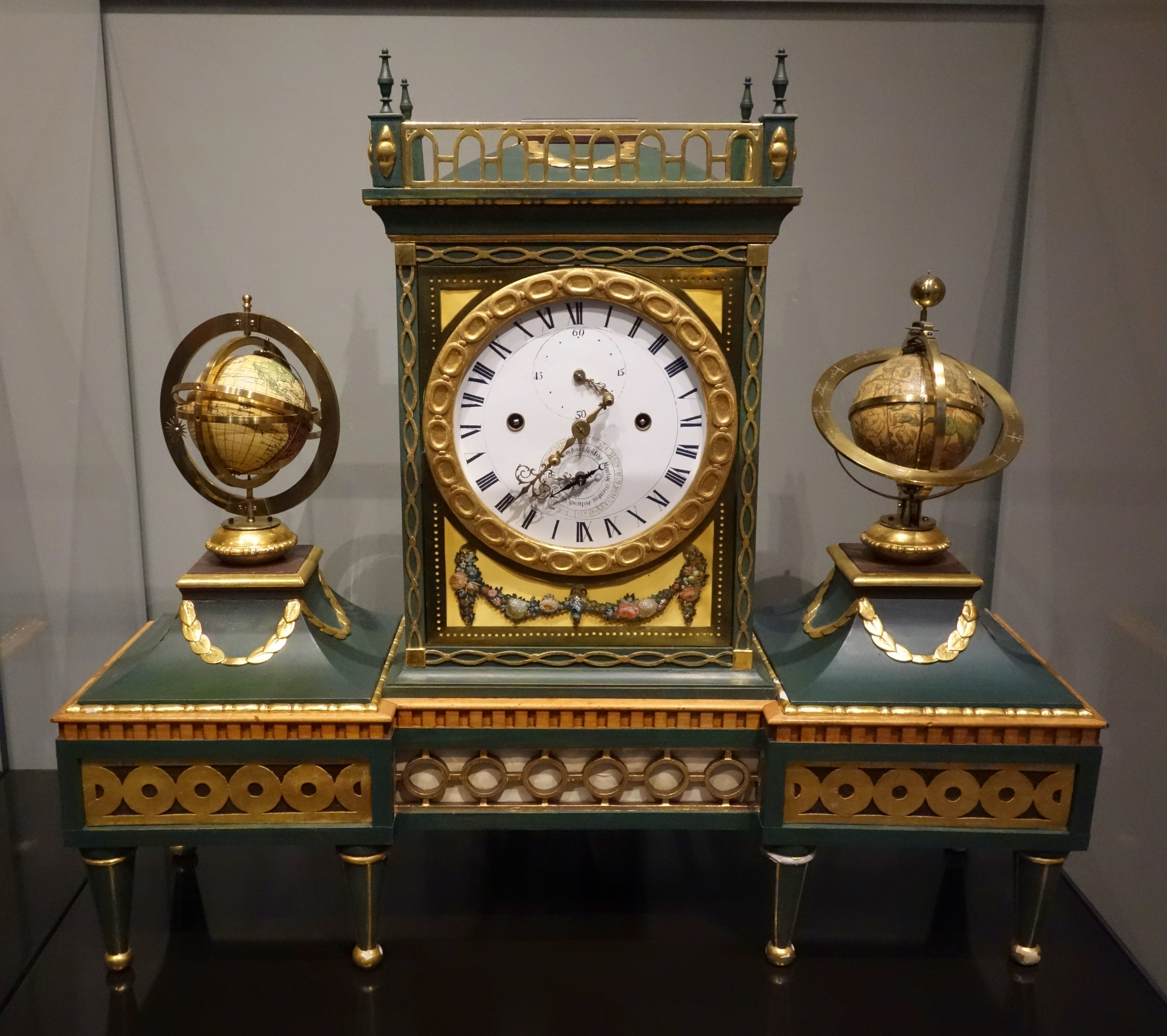 Exhibit in the Mathematisch-Physikalischer Salon (Zwinger), Dresden, Germany. This artwork is old enough so that it is in the public domain.